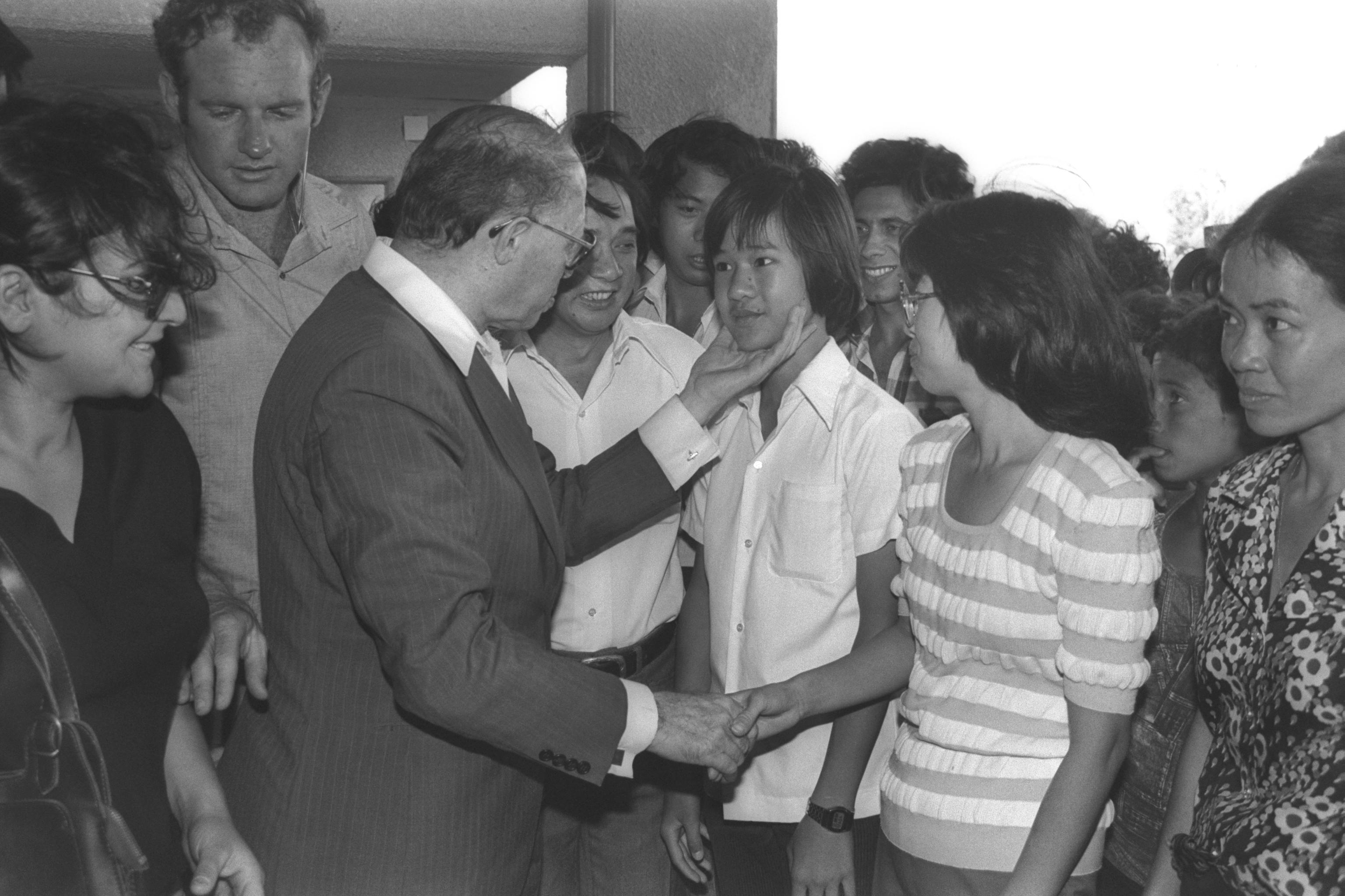 PM Menachem Begin visits Vietnameese refugees who were absorbed in Afula.